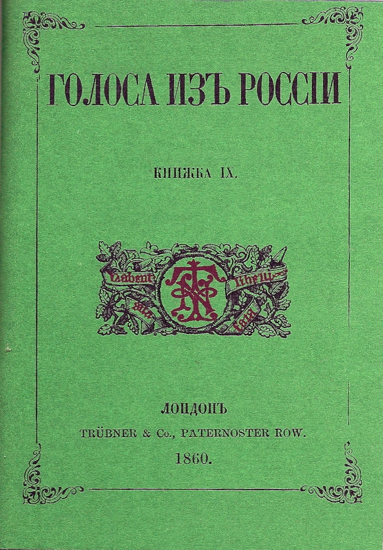 The title page of issue "Golosa iz Rossii" ("Voices from the Russia"), the exile-russian publication of Alexander Herzen and Nikolay Ogarev. London, 1860.